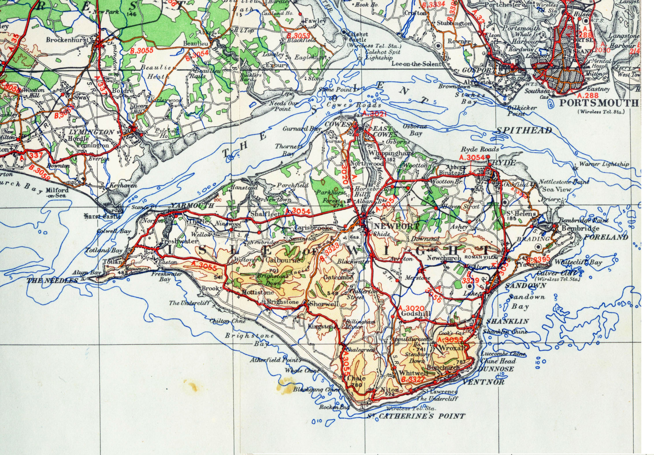 OS map from 1945 1/4 inch to the mile sheet 11